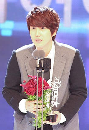 Cho Kyuhyun at the MBC Entertainment Awards, 29 December 2012